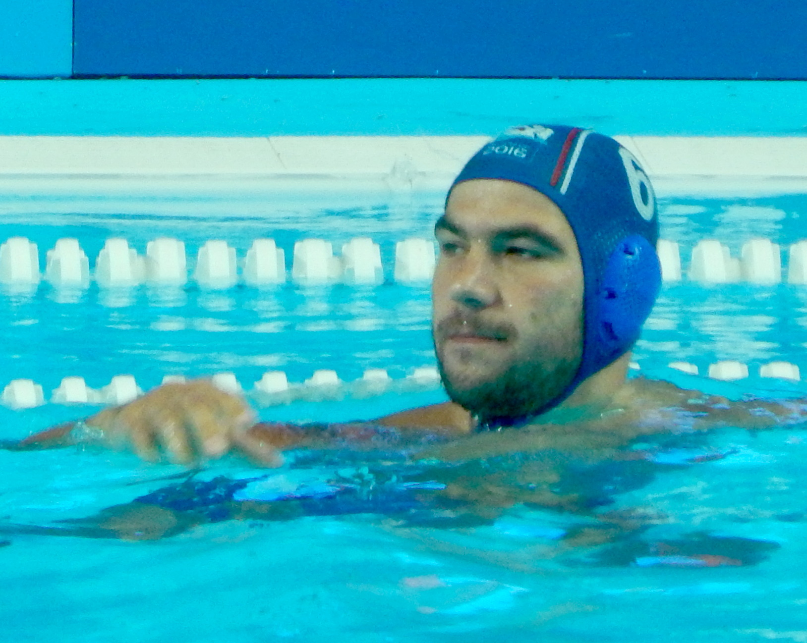 The gold medal match between Team Serbia and Team Croatia and the victory ceremony. All photos have been taken from the photographers sector. I was simply usual visitor but my ticket was to non-existent seats, therefore I was moved to that sector. All good photos I upload to WikiCommons for free use.